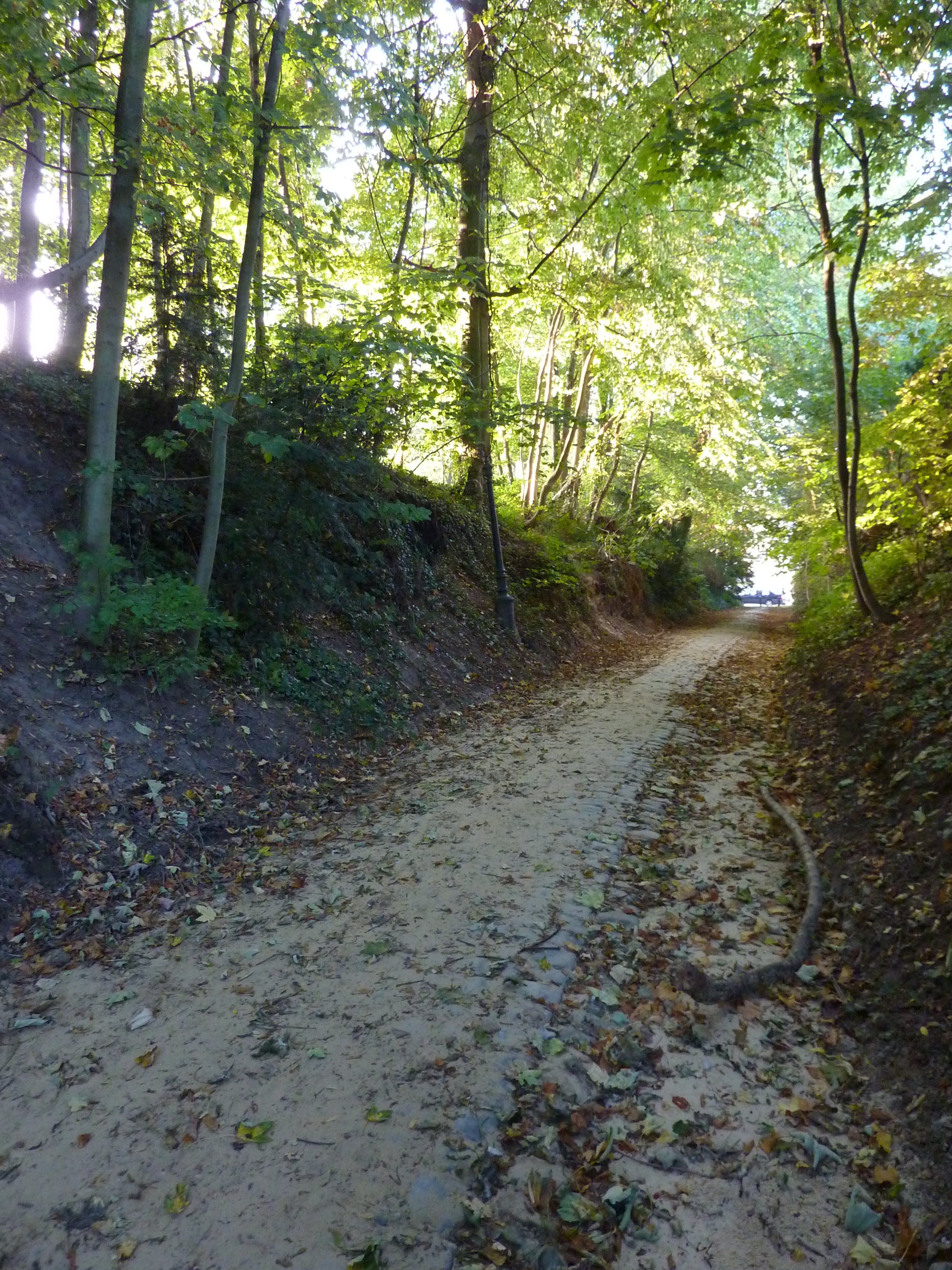 Crabbegat Uccle - hollow path